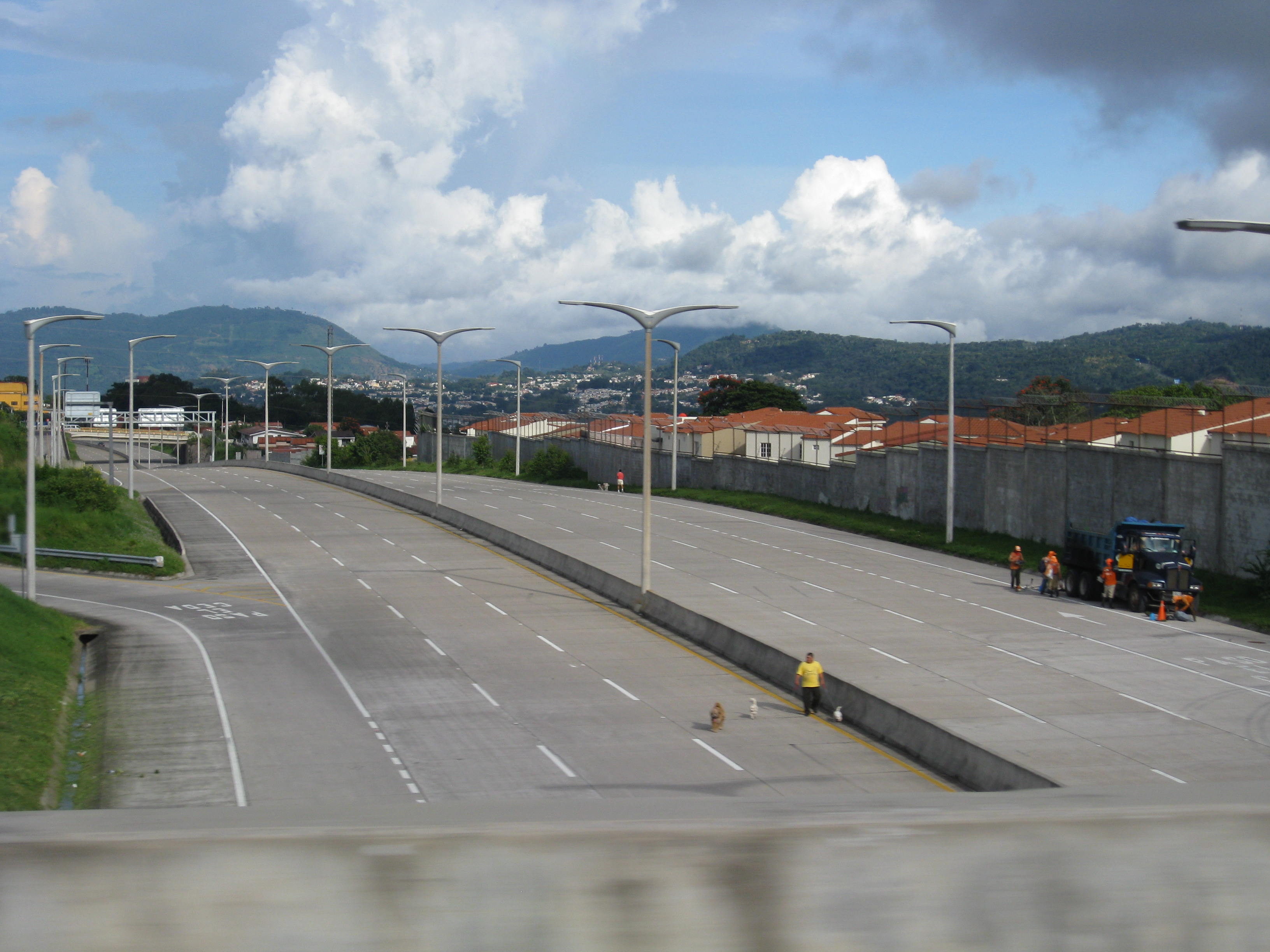 RN-21 During Construction